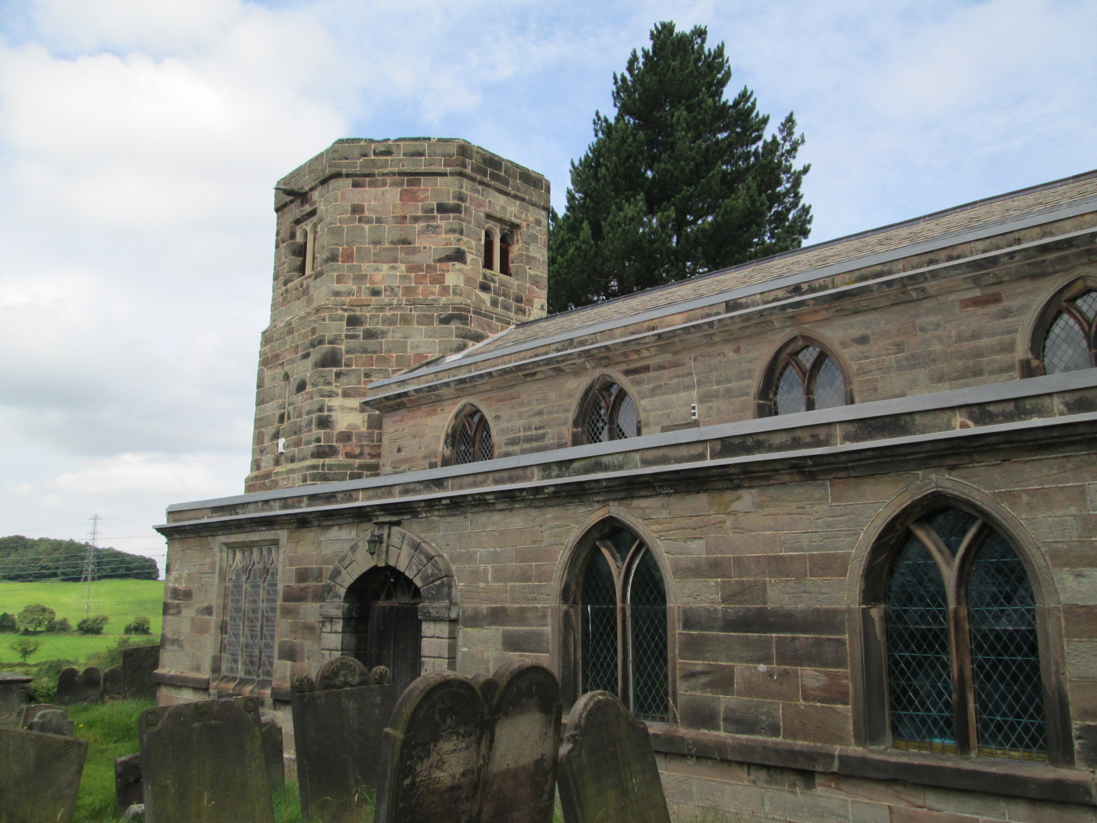 Nave and west tower of All Saints' parish church, Dilhorne, Staffordshire, seen from the southeast